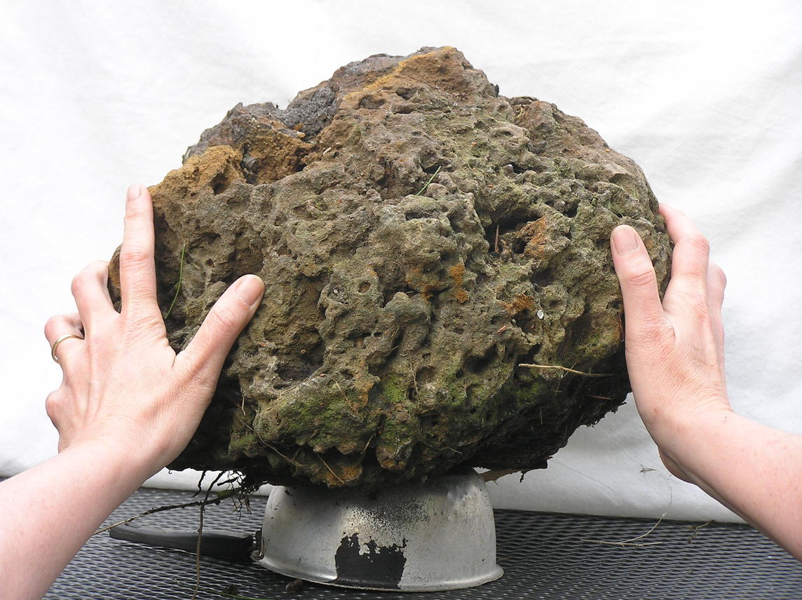 A lump of bog iron recovered from the Oploose Molenbeek at Sint Anthonis.